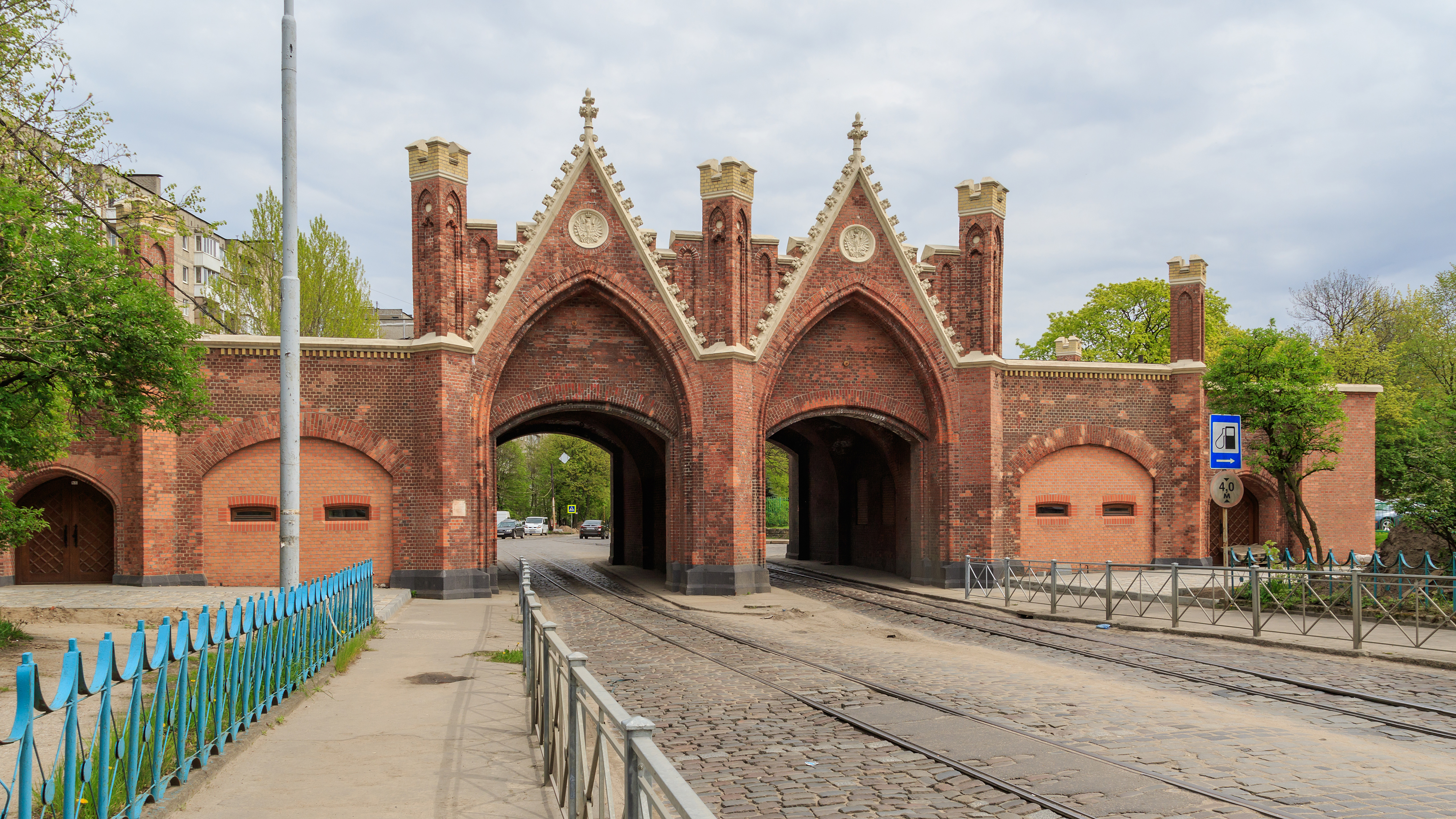 Brandenburg Gate (west side) in Kaliningrad formerly Königsberg, Kaliningrad Oblast (Russia).